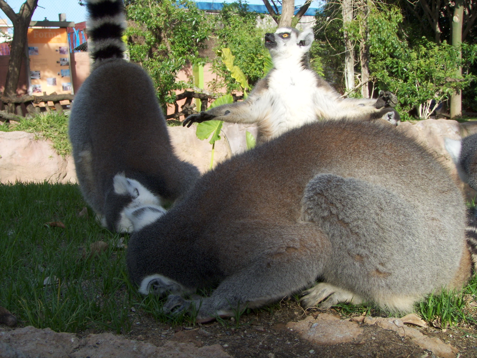 woah!